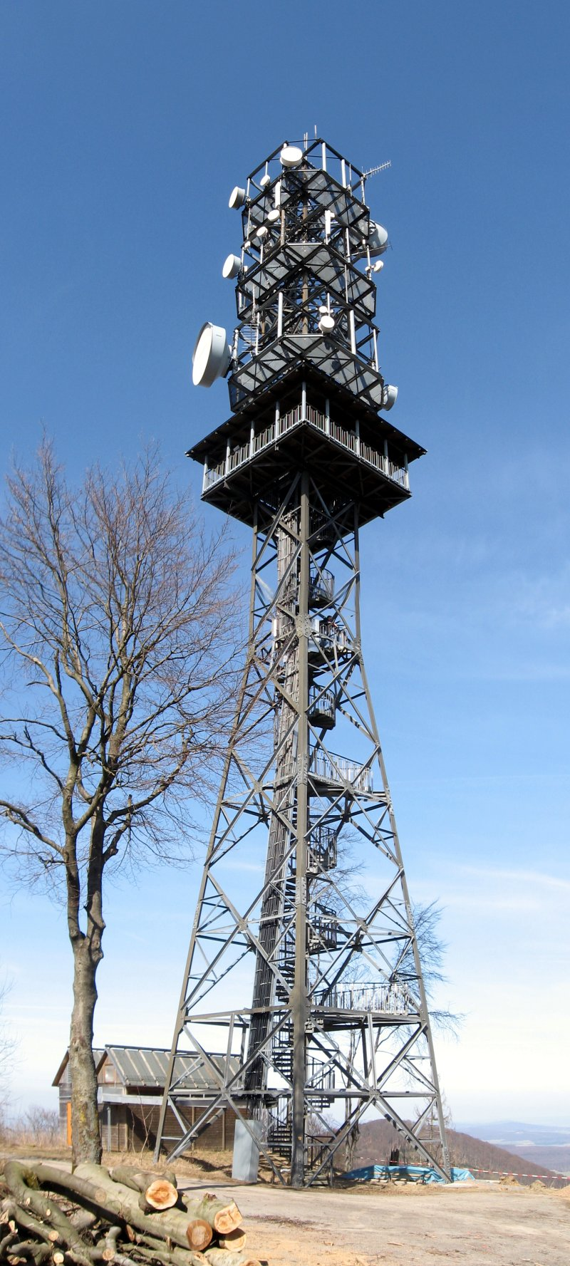 On the great bear mountain near Cassel in north hesse: vien on the tower